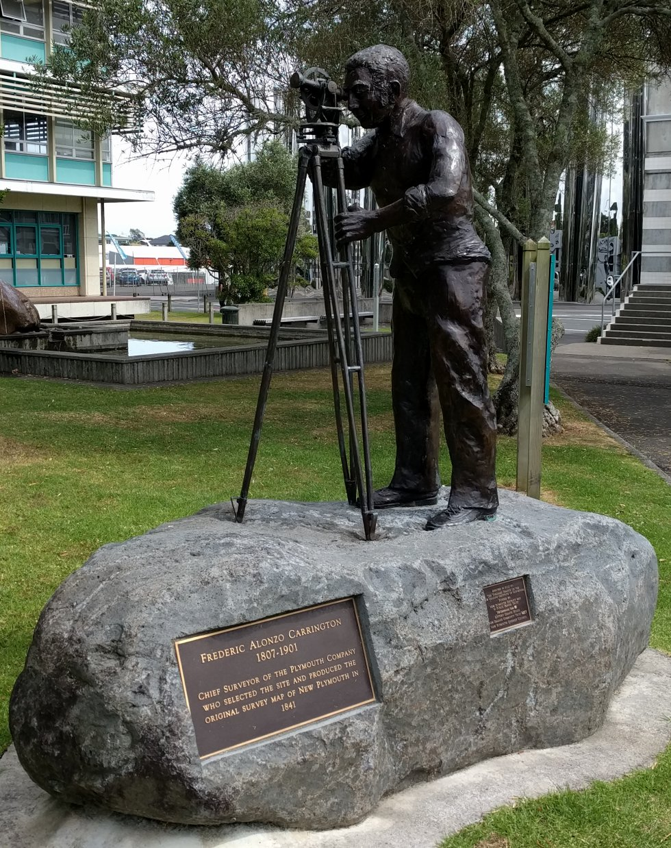 Statue of Frederic Carrington (1807-1901), at Robe Street Lawn, New Plymouth